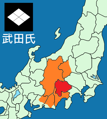 Map of Takeda clan 1572